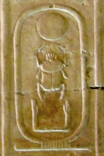 Cartouche 60, Abydos King List. Temple of Seti I, Abydos, Egypt